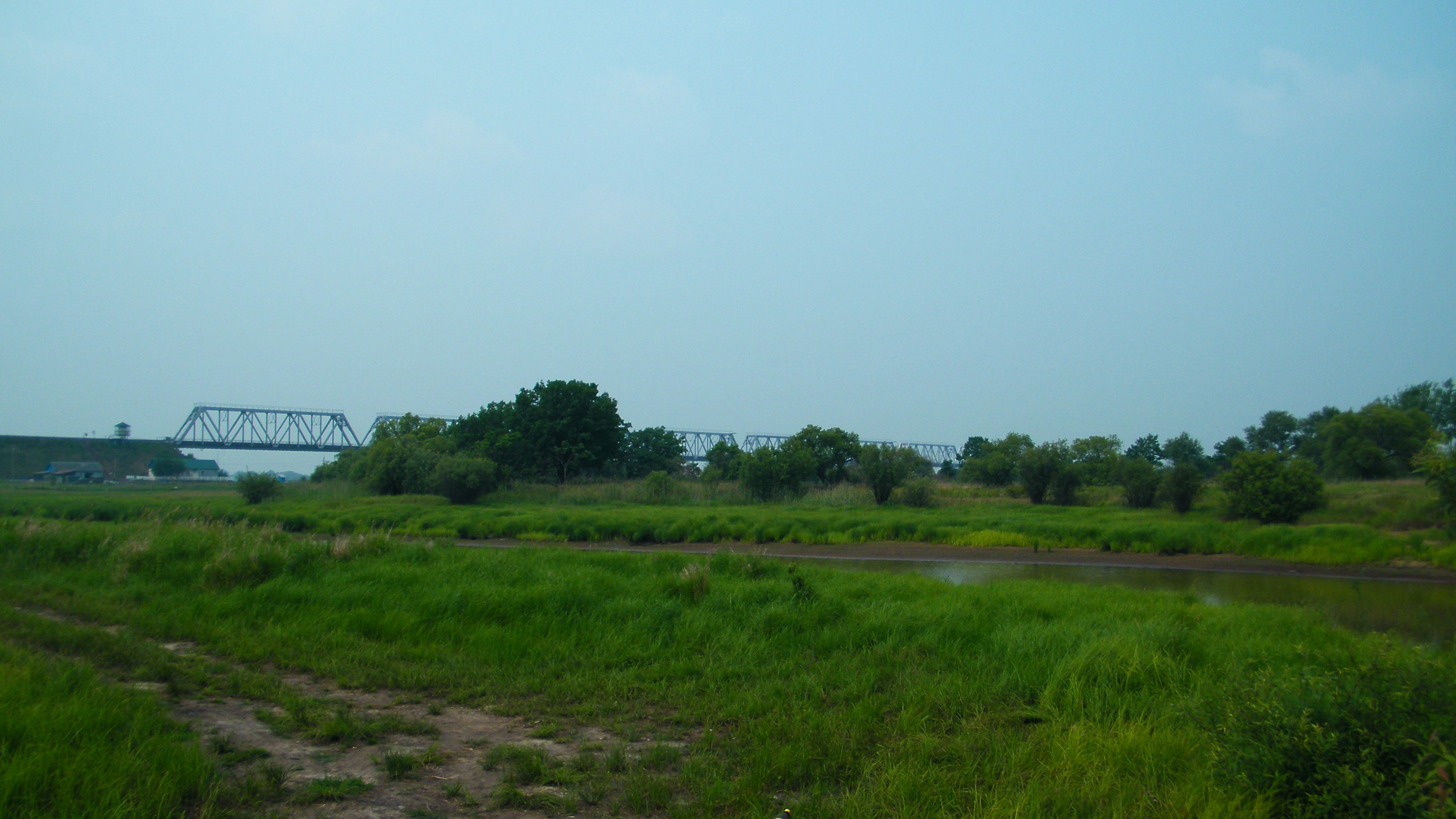 Tunguska EAO River